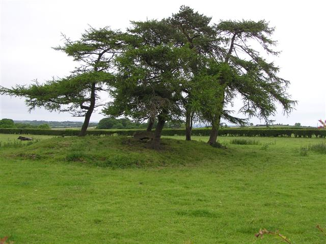 Chambered grave at Moneydig Looking north